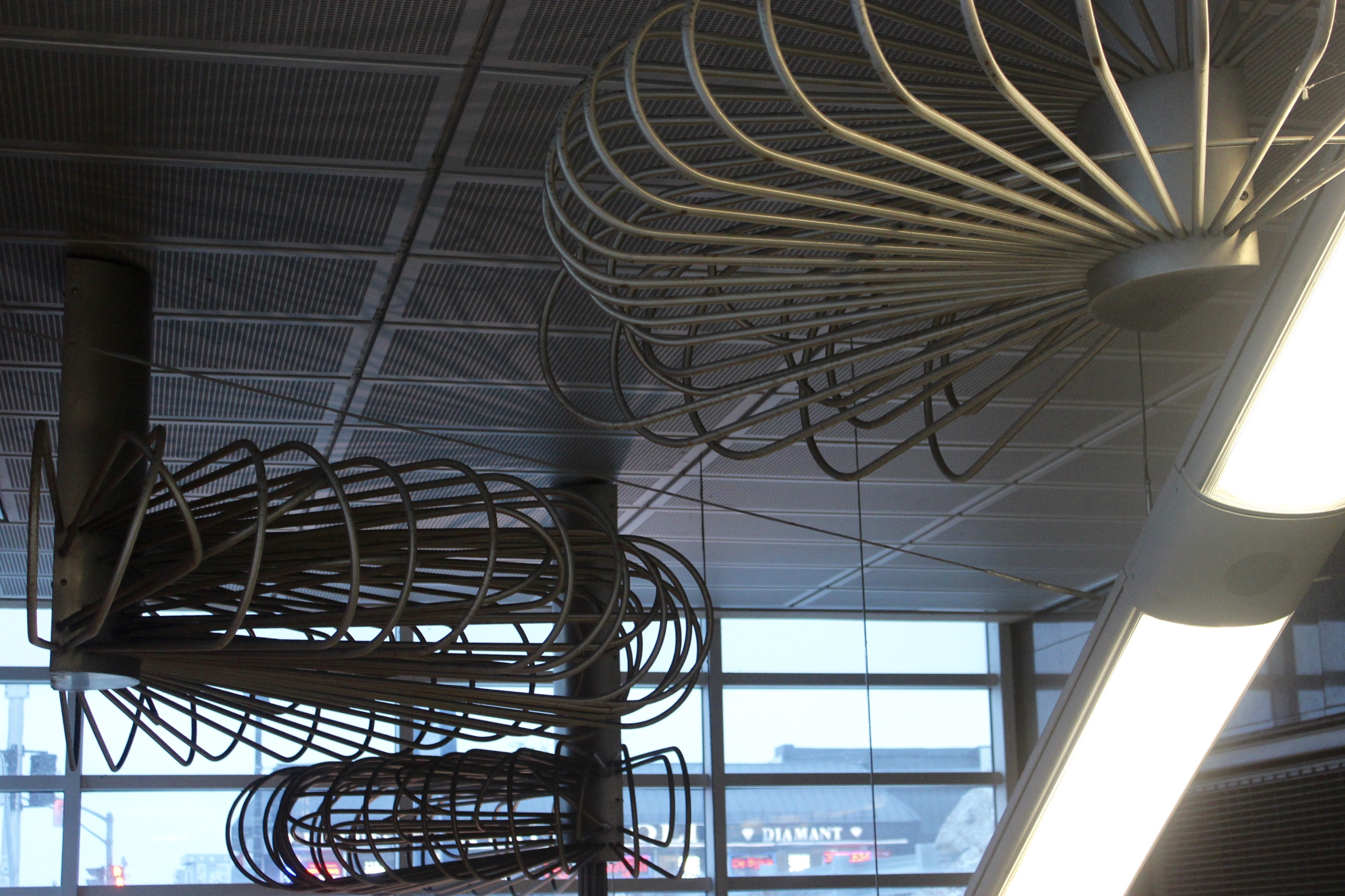 "Dessins Suspendus" (2009) from Yvon Proulx. Official site: "Stainless steel. Location: east entrance. Three airy, rosette-shaped sculptures cast a tracery of shadows onto the ceiling, floating like water lilies on a calm pond. The shapes draw on natural forms, suggesting clouds, plant life, or large, open hands... The work was inspired by the location of Cartier station, near a former wetland surrounding a river inlet."